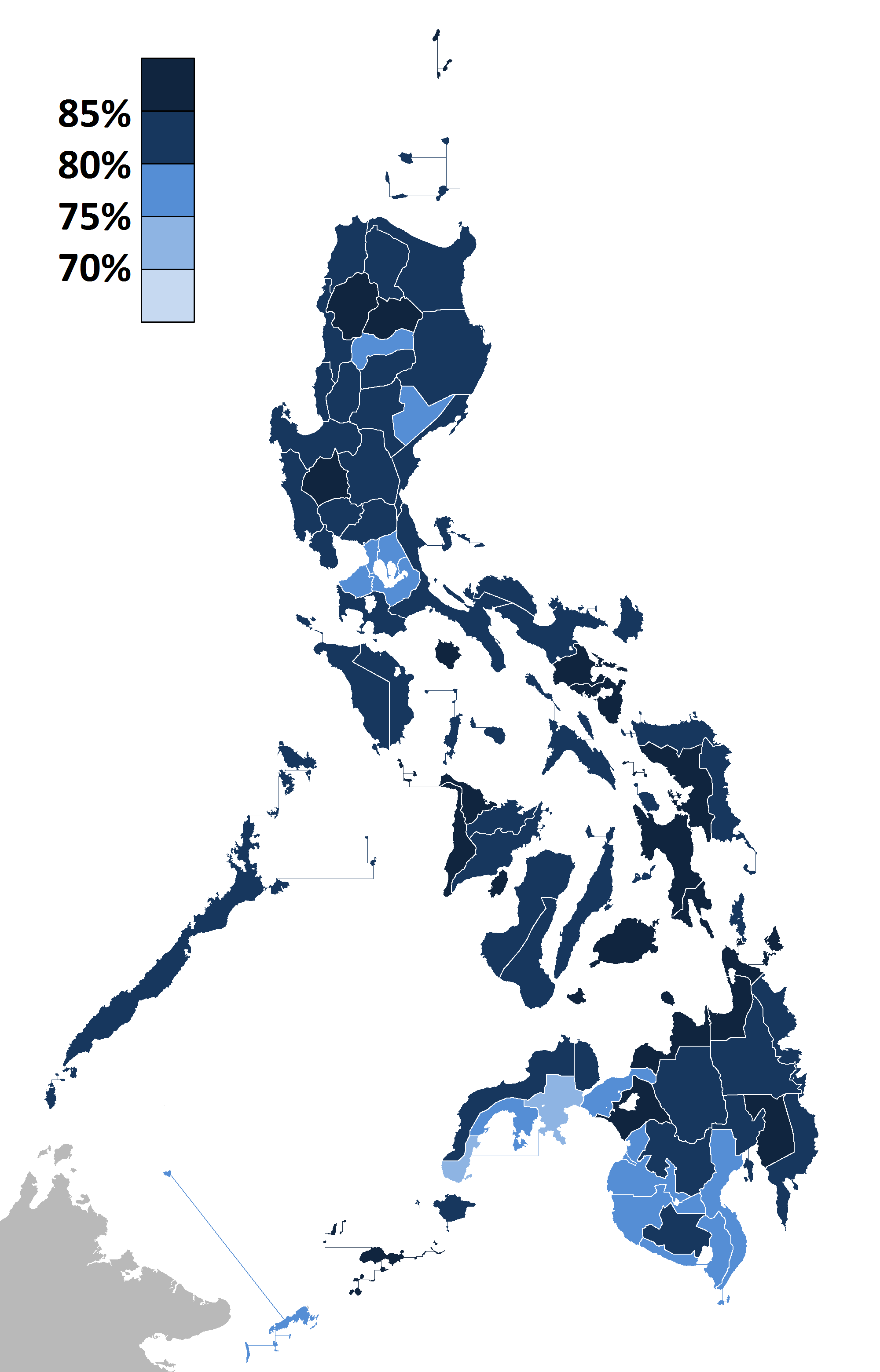 Voter turnout during the Philippine general election, 2016.